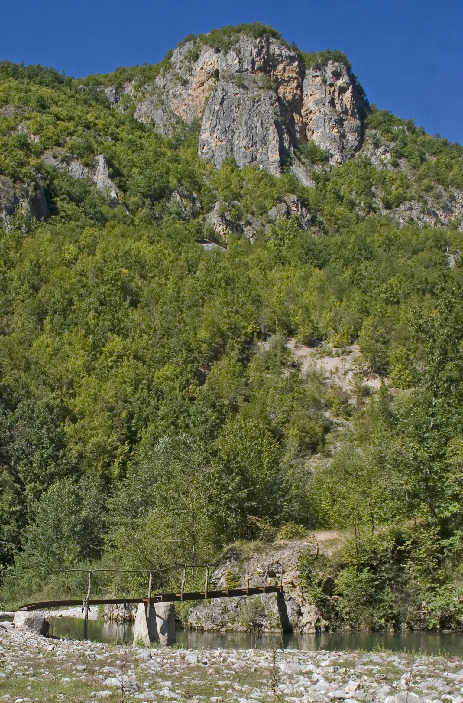 Sokolica rock, above the river Rzav, Central Serbia